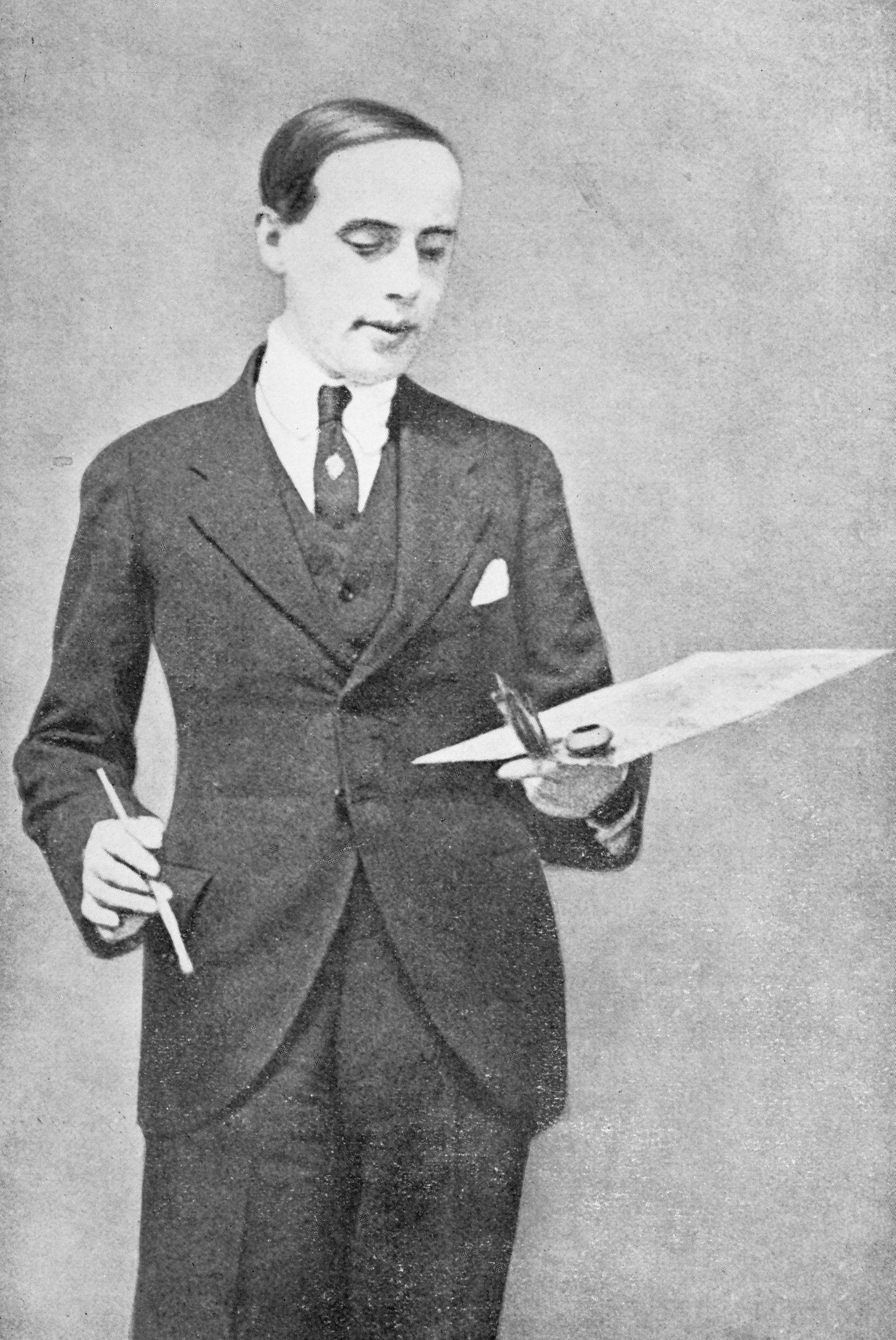 from N. Hoyer, ed., Man into Woman. An Authentic Record of a Change of Sex. The true story of the miraculous transformation of the Danish painter Einar Wegener (Andreas Sparre). London: Jarrolds, 1933. Photograph: Einar Wegener (Andreas Sparre), 1929, opp. p. 80.